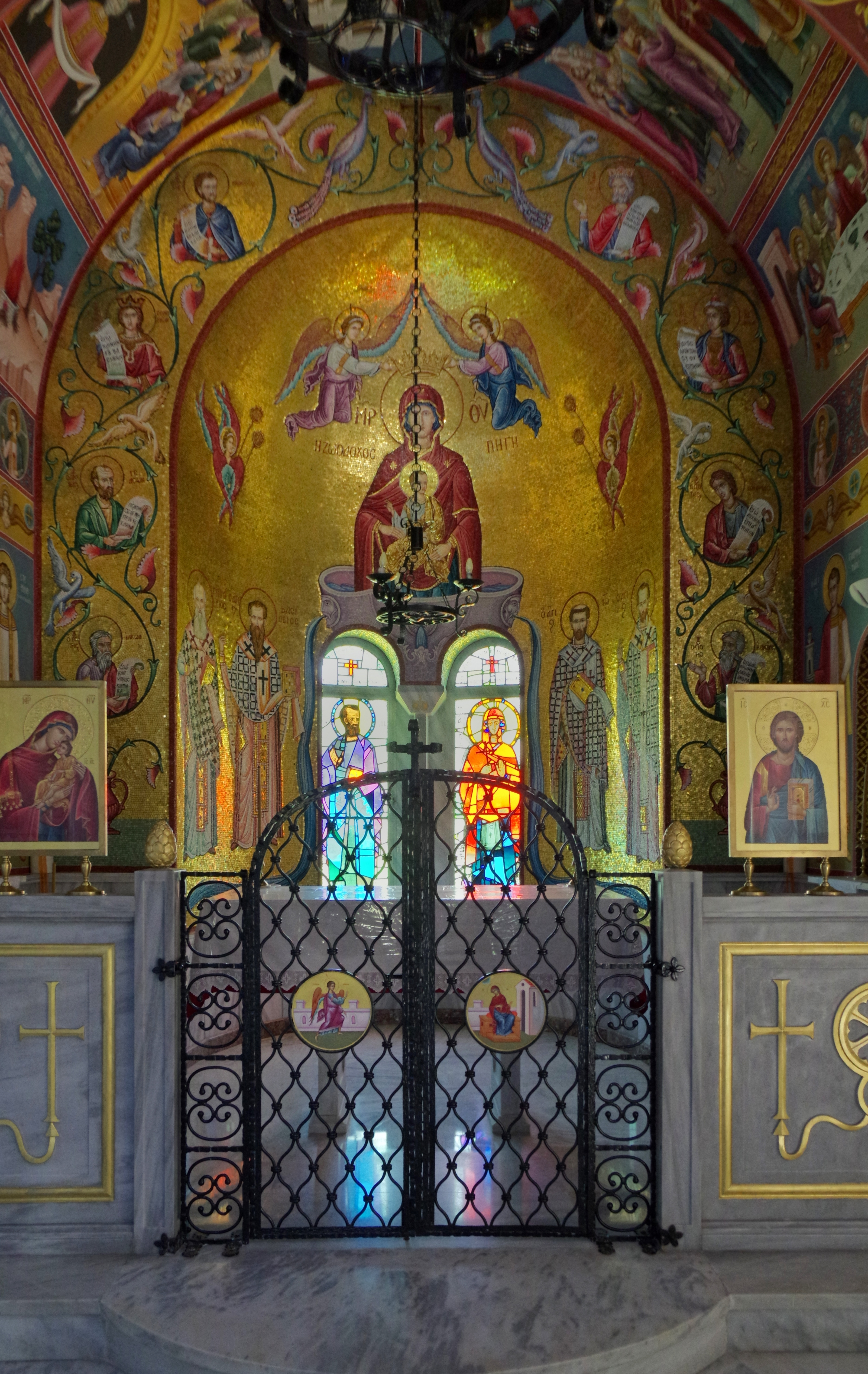 Lydia Baptistery at Phillipi